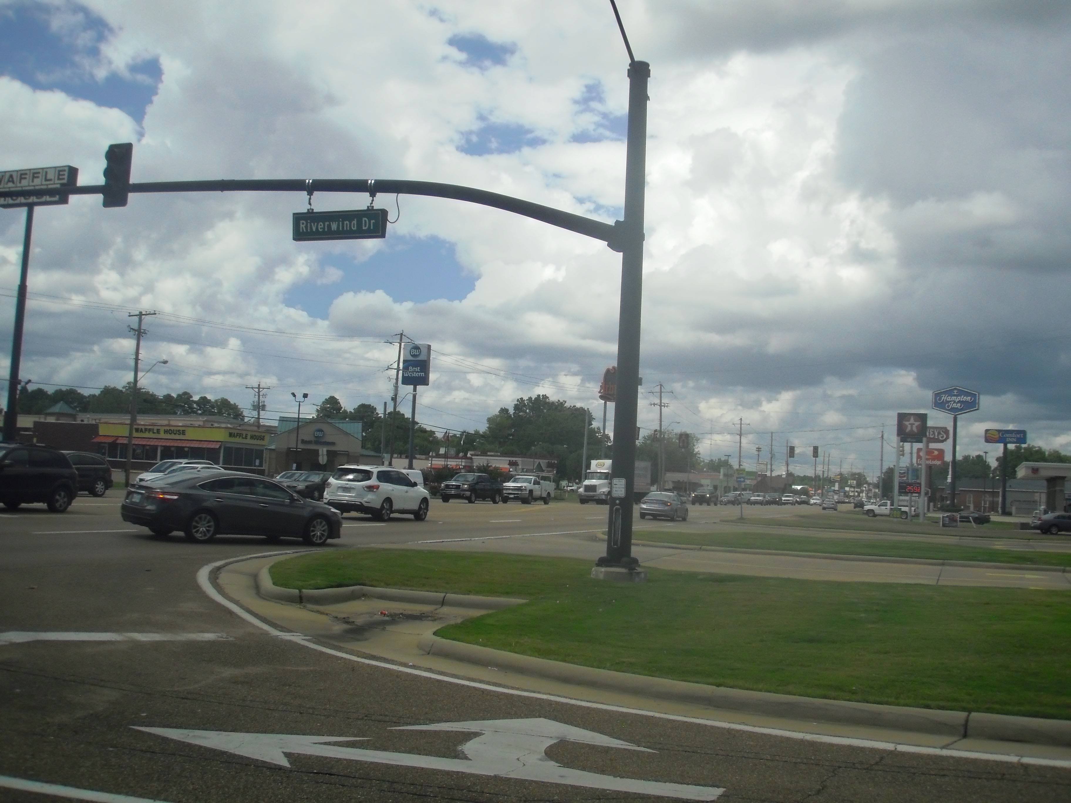 An intersection between Riverwind Drive and South Pearson Road.